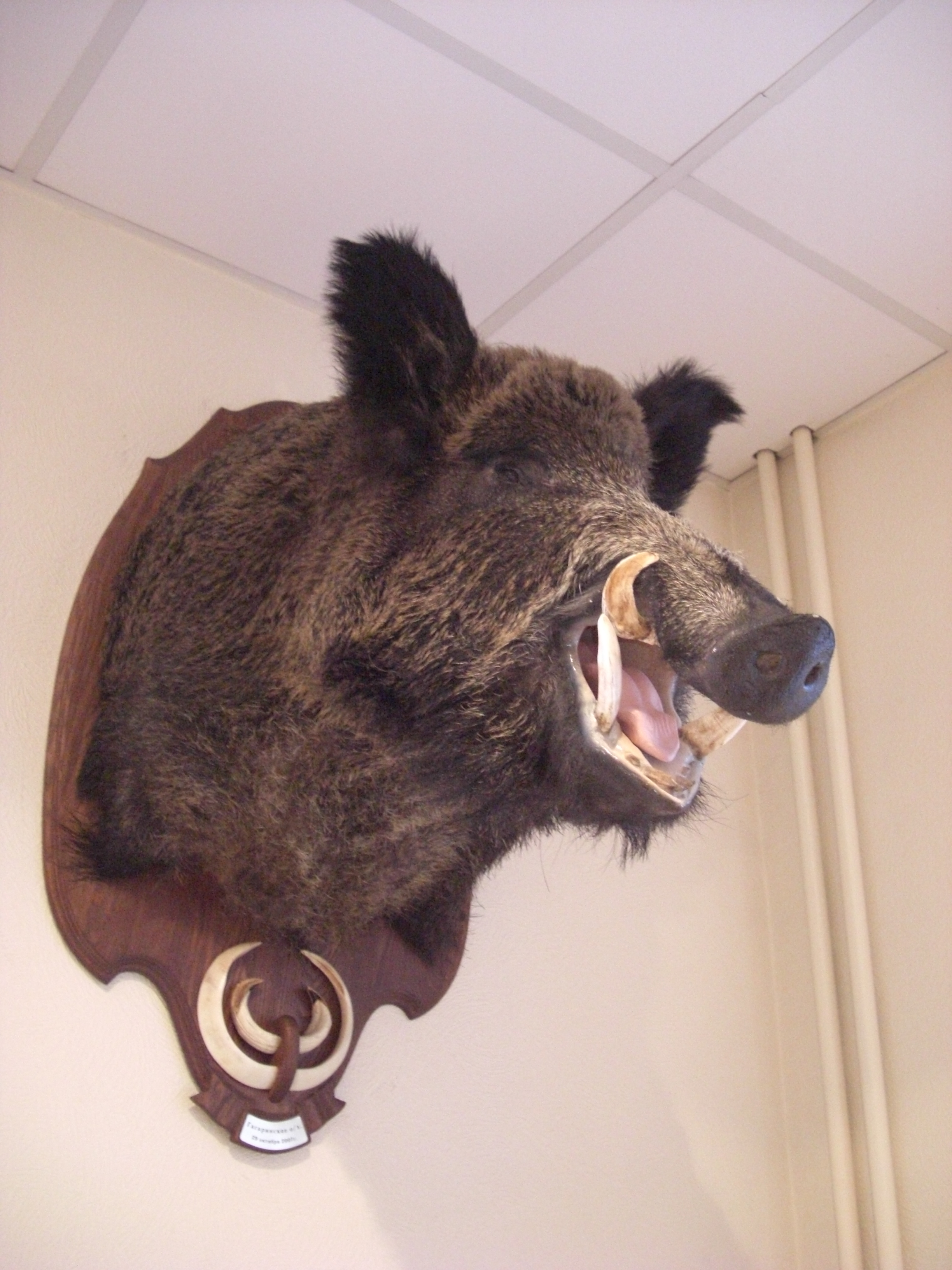 Stuffed Head of a Wild Boar Shot in October 2007 near Smolensk, Russia